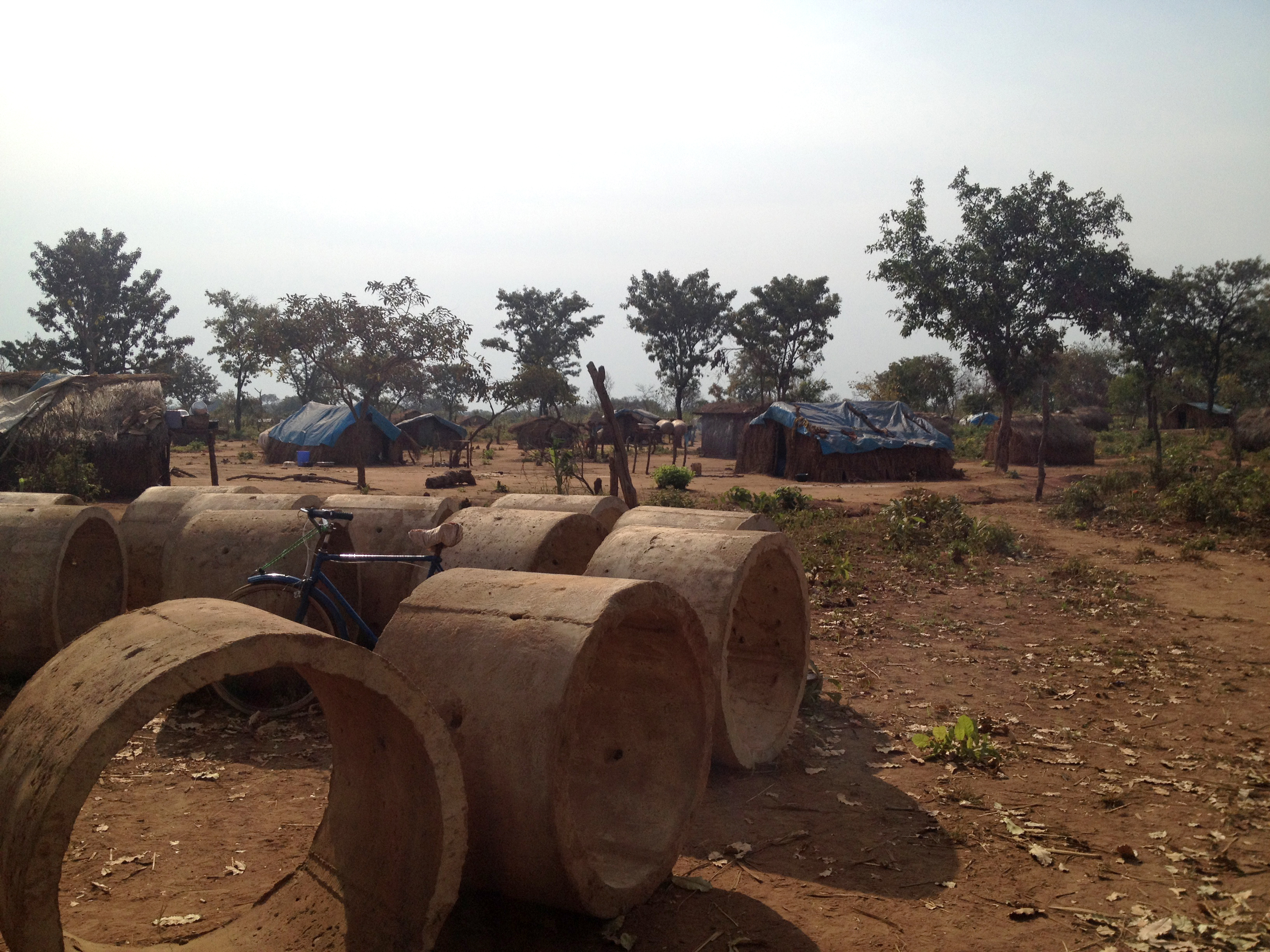 More than 600,000 people have already fled their homes in the ongoing violence in Central African Republic. Many head for makeshift settlements - such as this Internally Displaced Persons (IDP) camp in Kaga Bandoro, towards the north of the country. The UK is providing emergency healthcare, clean water, food and logistical support to hundreds of thousands of people across CAR in response to the severe escalation in the humanitarian crisis. For full details of how the UK is helping, please Picture: Juliette Humble/DFID